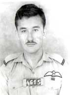 Samad Ali Changezi